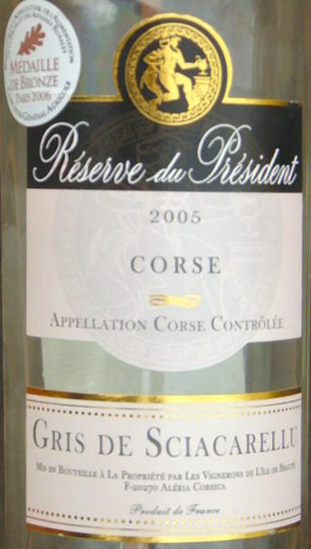 Label of Gris de Sciacarellu,Réserve du President, an AOC wine from Corsica